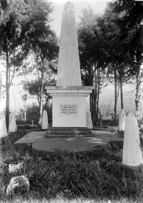 The grave of Franz Wilhelm Junghuhn, upon which the urn with the ashes of Johan Eliza de Vrij was placed